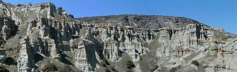 en: Volcanic rock formations of Yanıkyöre (ancient Katakekaumene) near Kula, Manisa, Turkey